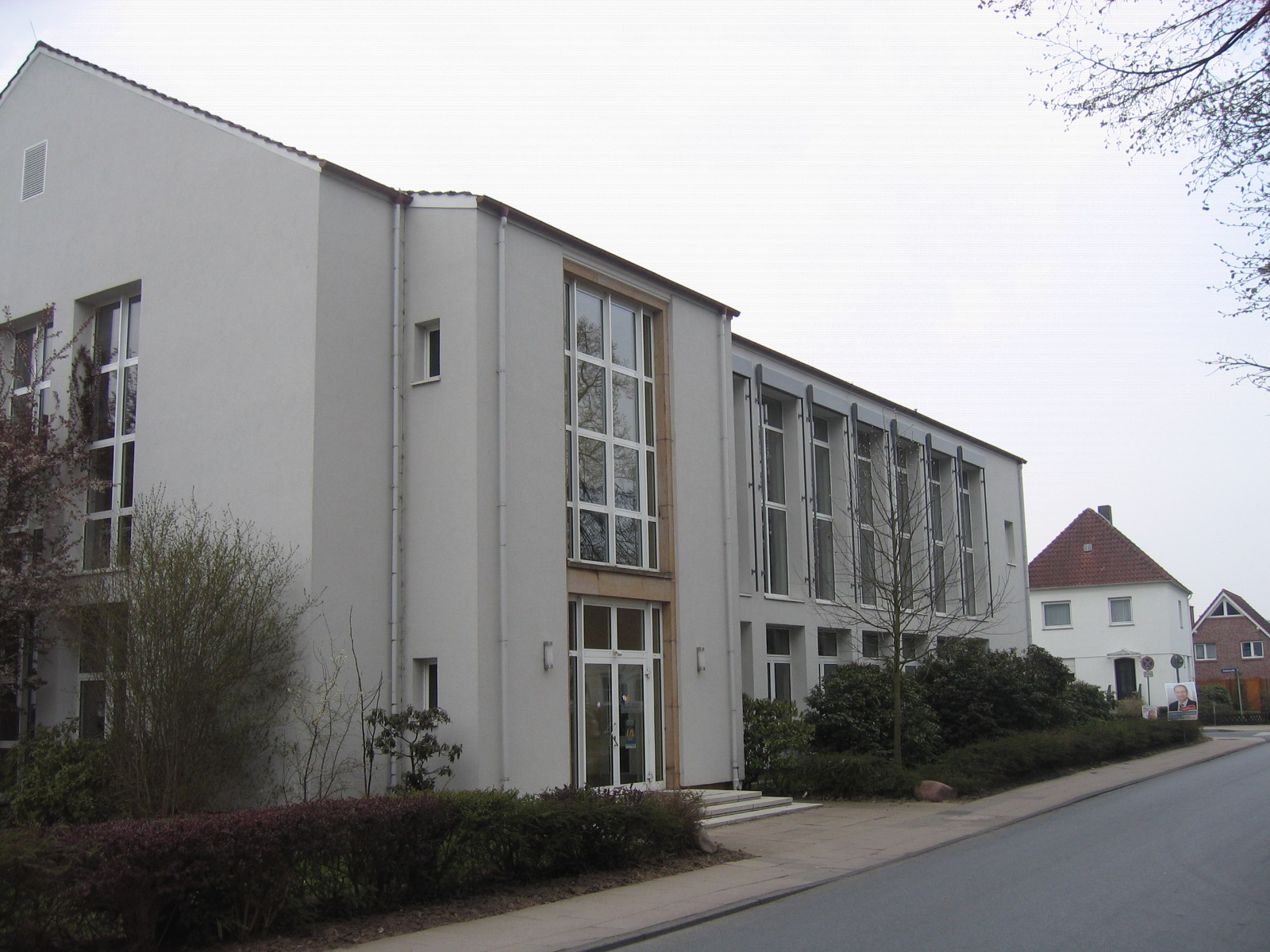 Spenge, District of Herford, North Rhine-Westphalia, Germany.